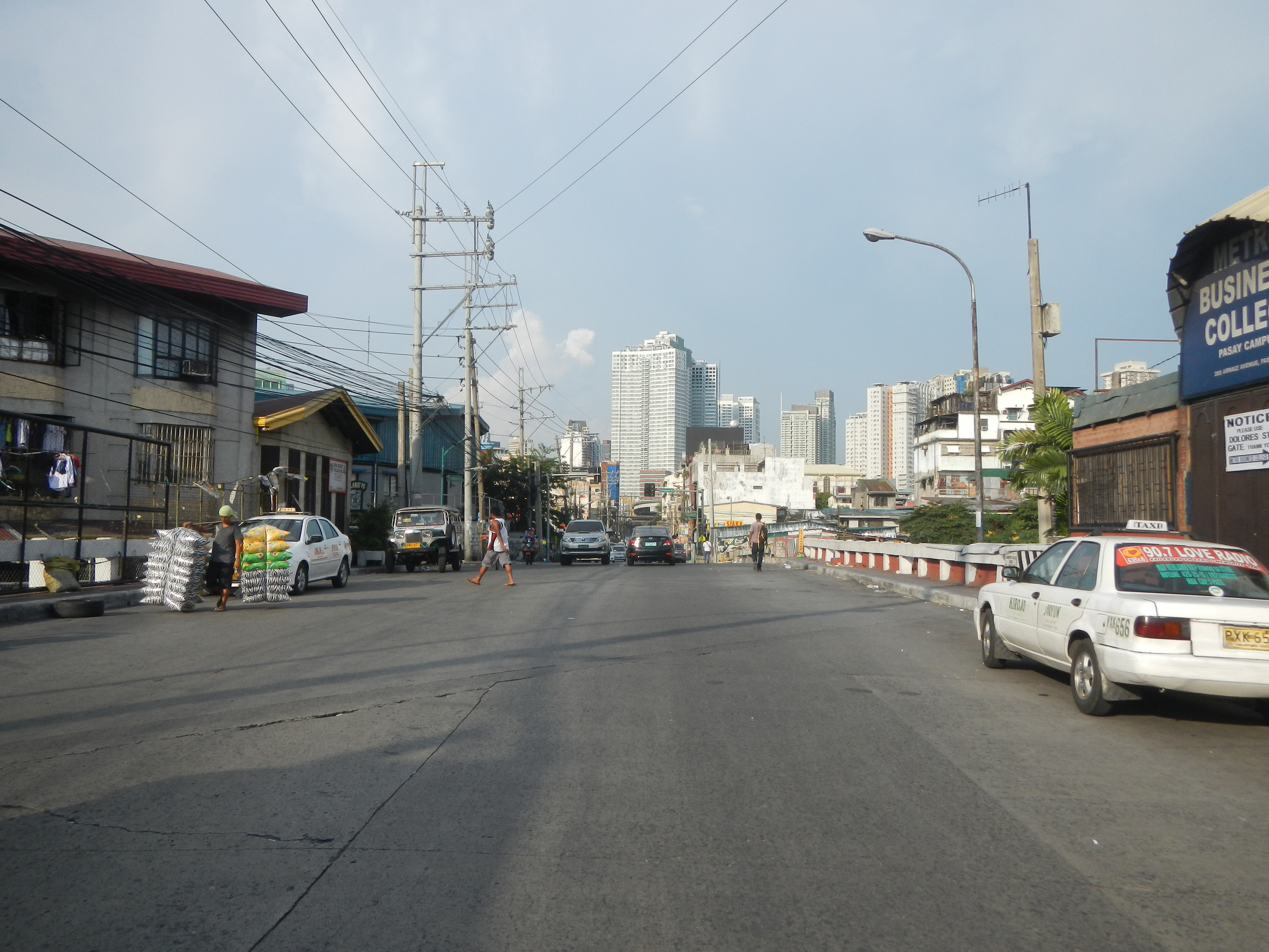 Pasay City-Makati City Boundary Marker (Arnaiz Avenue) in Legislative districts of Makati, Barangay San Isidro beside Barangay Pio del Pilar, Makati City; connected by the Cementina Dolores Bridge Sta. Limit 7+998 Load Limit 10 Tons upon the Estero de Tripa de Gallina, Estuaries in Pasay City-Makati City, Metro Manila of the List of rivers and estuaries in Metro Manila Arnaiz Avenue Dolores Street, Buildings in Pasay City Legislative district of Pasay Pasay City List of barangays of Metro Manila Barangays 50, 59, Zone 7, 66, 67, Zone 8, 92, Zone 9, 94, 95, 105, 106, 107, 108, Zone 11, 120, Zone 12, 127 and 128, Zone 13, Pasay City (including Colayco Street, Decena Street, Zamora Street, P. Burgos Street, Yapchulay Street, Clementina Street, Zamora Street from Libertad LRT Station at Taft_Avenue, along Arnaiz Avenue Libertad Road and Pasay Road formerly called Libertad, on the Pasay segment named after aviation pioneer, Antonio Somoza Arnaiz; Landmarks).